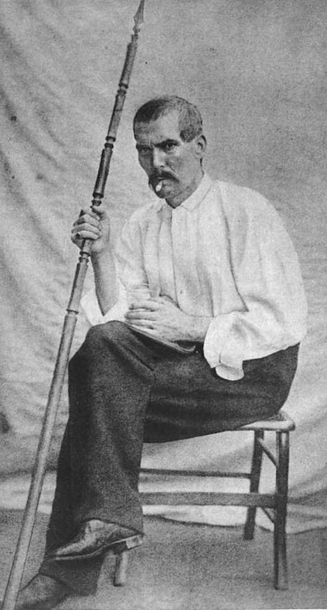 Photograph of Richard Francis Burton in Africa